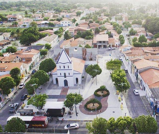 Panoramica Pindoretama